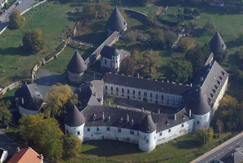 Kobersdorf Castle, Austria, aerialphotography